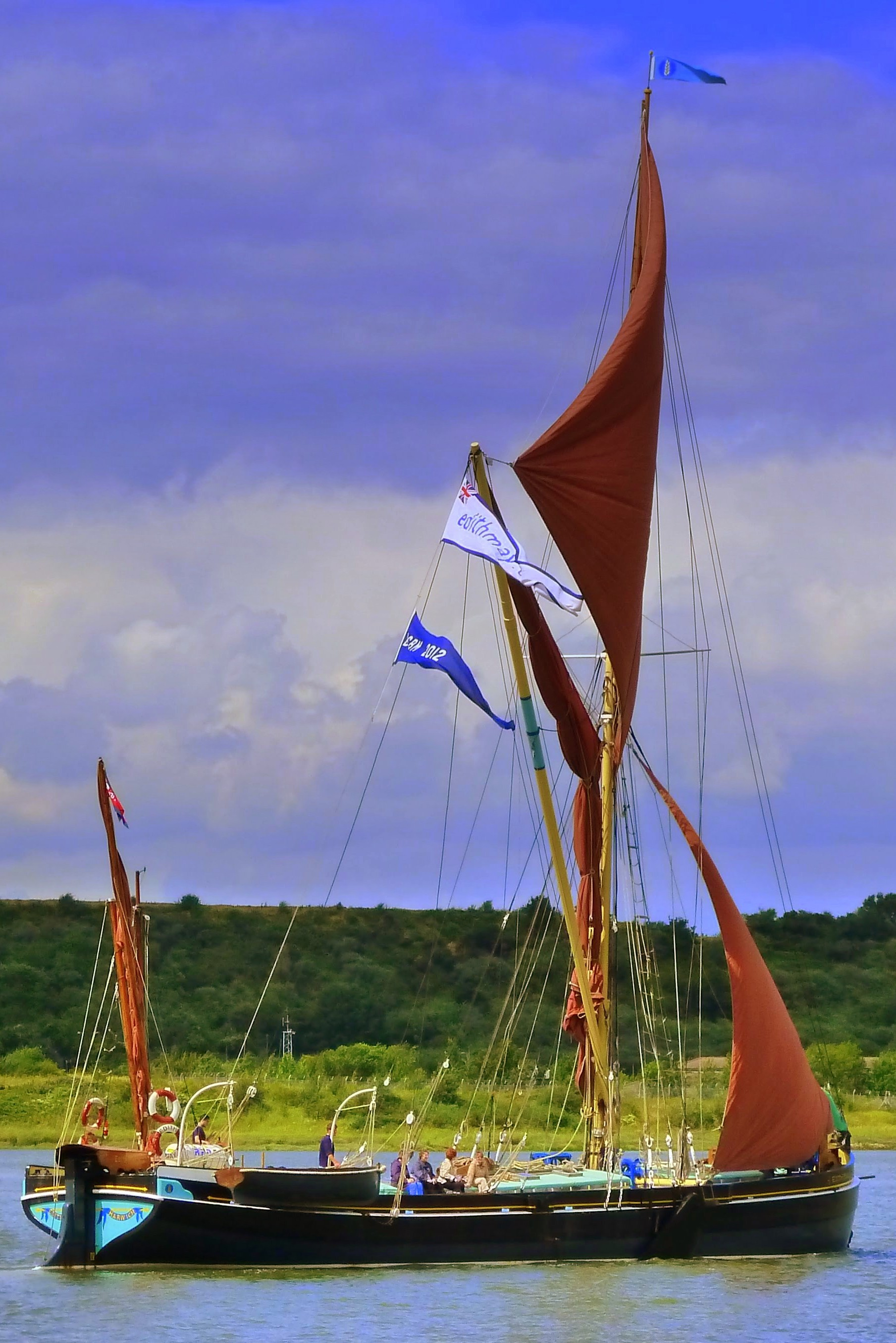 Thames Barge Edith May at Chatham, sailing under topsail with mainsail and mizzen brailed